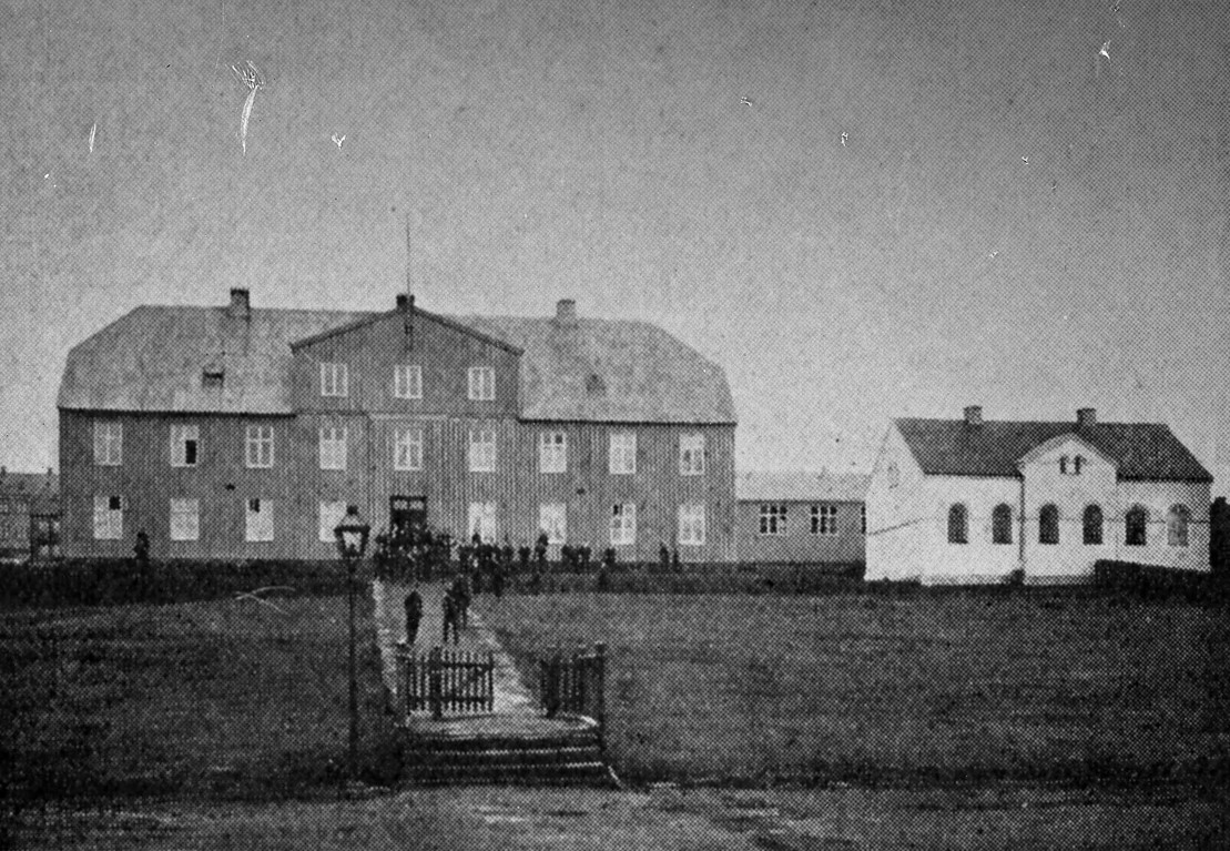 Old photograph of the latin school in Reykjavik (left) and the library (right). The school was built 1846 and the library was built in 1866-67. This library Íþaka was the first building in Iceland build especially as a library and was made possible because english merchant Charles Kelsall who died in 1853 gave 1000 pound to build the library. Lækjargata 7 in Reykjavík.